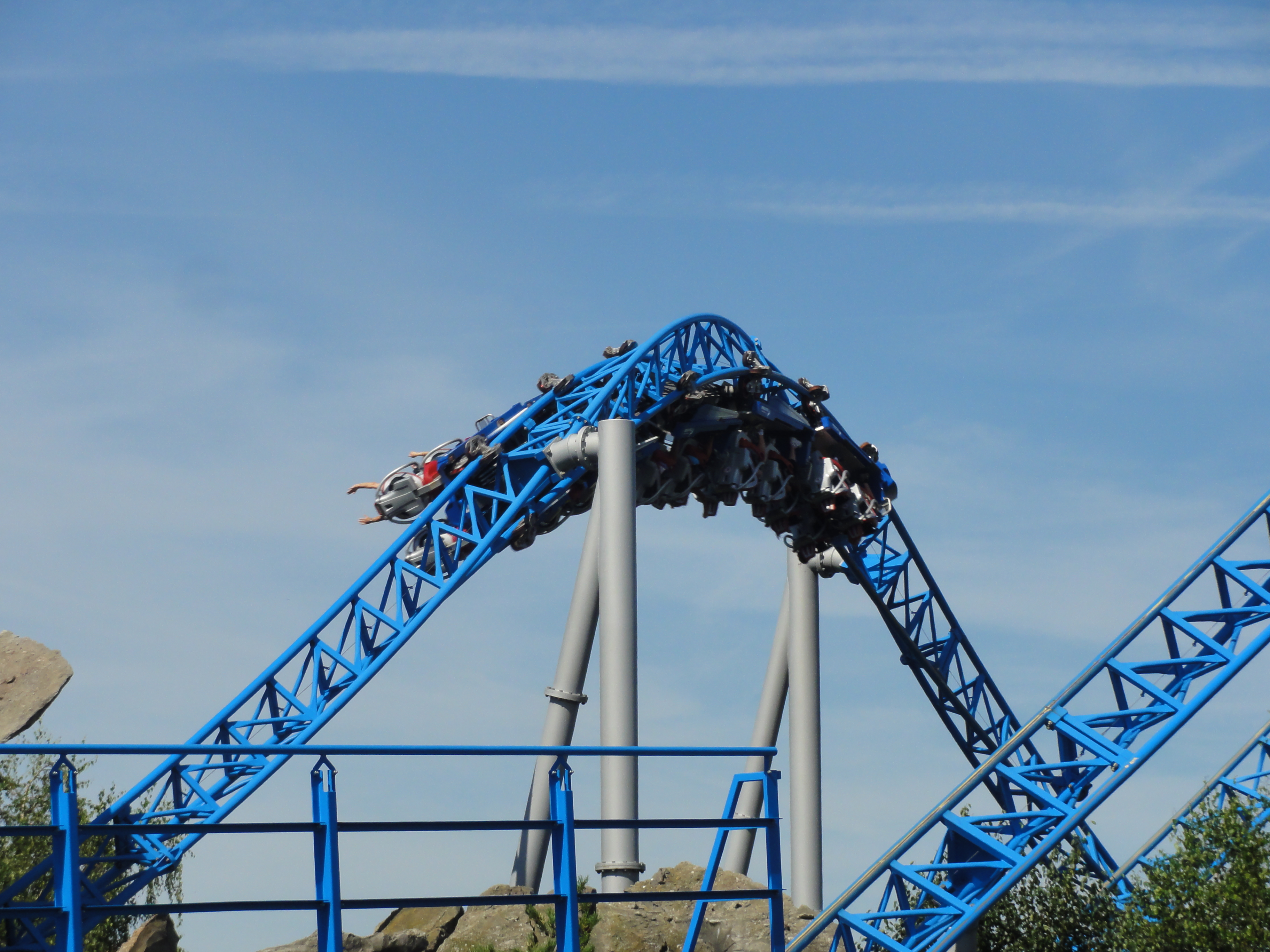 Blue Fire Megacoaster, Europa-Park, Rust, Baden-Württemberg, Germany.